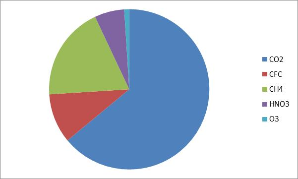 Influence of greenhouse gases in the greenhouse effect, according to data from Brazilian Bishop Conference